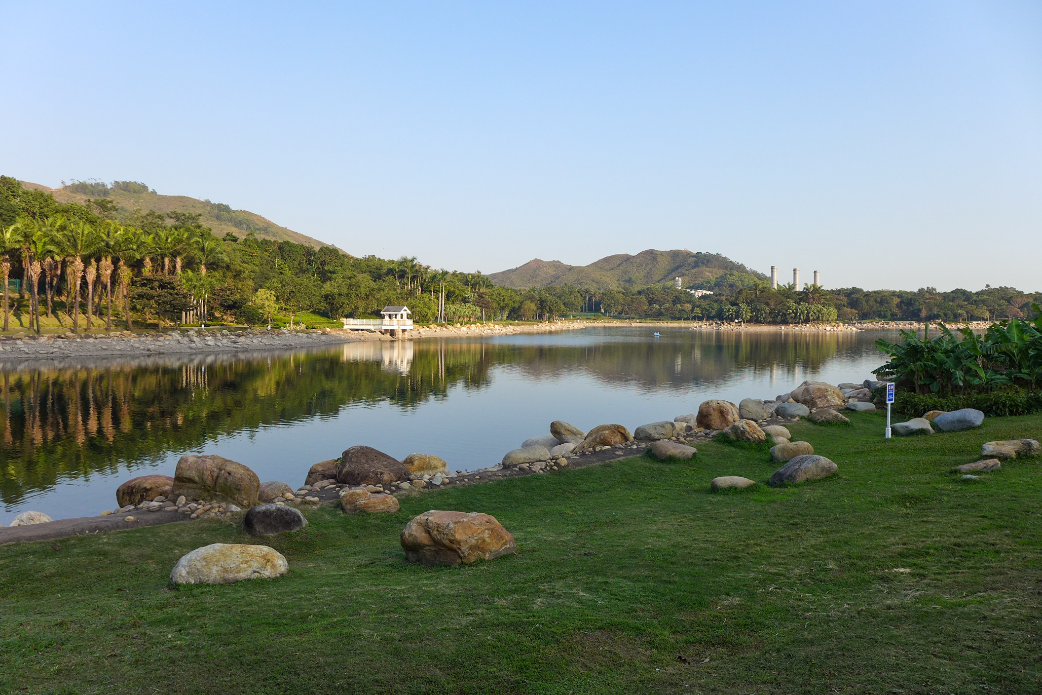 Inspiration Lake Recreation Centre